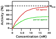 Effects of full agonist and partial agonist